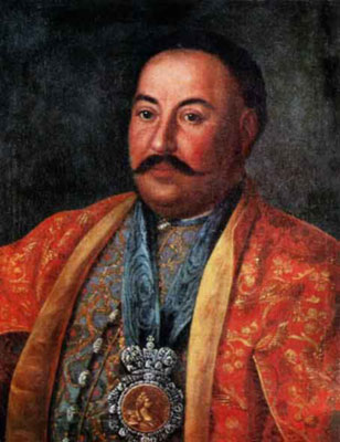 Portrait of ataman F.I. Krasnoschekov, Canvas, oil State Russian Museum, 1761